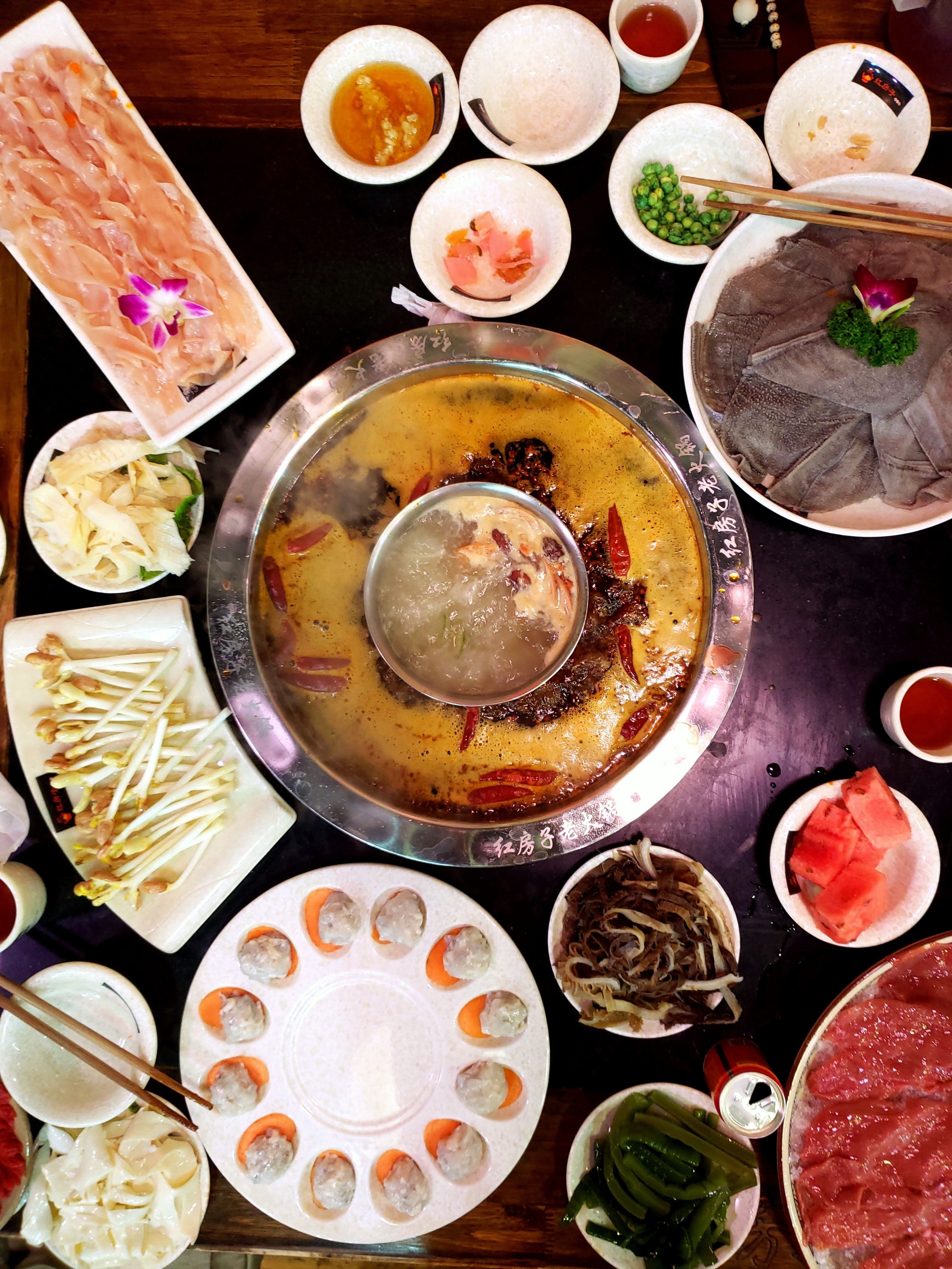 Typical Chongqing hot pot served with minced shrimp, tripes, pork aorta, goose intestine and kidney slices.